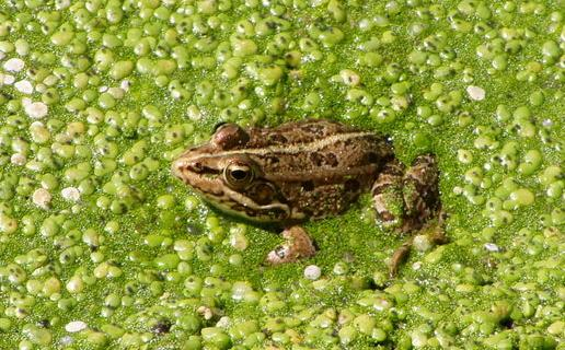 Iberian Water Frog